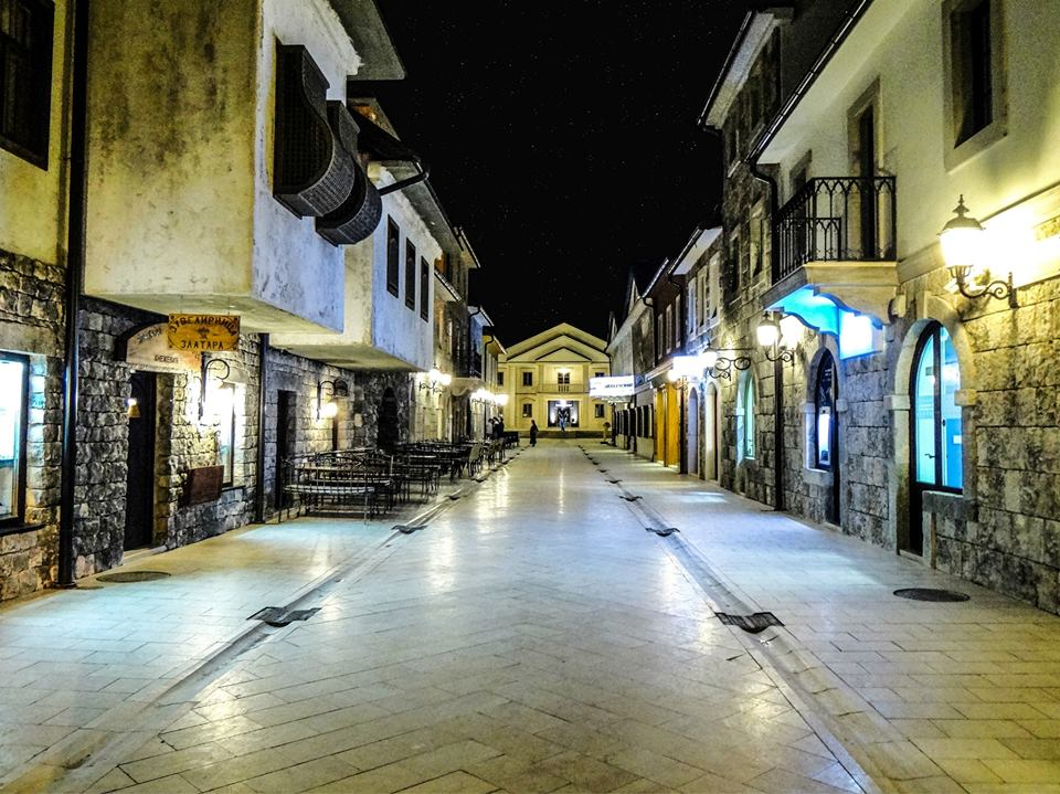 Andricgrad at night